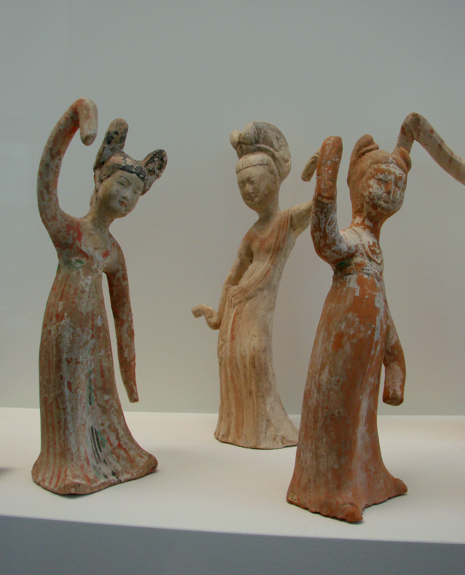 Five women dancers (detail). North China, Tang Dynasty, 2nd half of the 7th century, molded buff mud, engobe and polychrome. Guimet Museum, Paris. Robert Rousset Collection, 1978. MA 4687, 4292, 4699, 4686 et 4698.